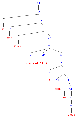 This is a syntactic tree diagram of the sentence "John convinced Bill to sleep" in order to show the relation of PRO ('big pro') to a secondary subject.